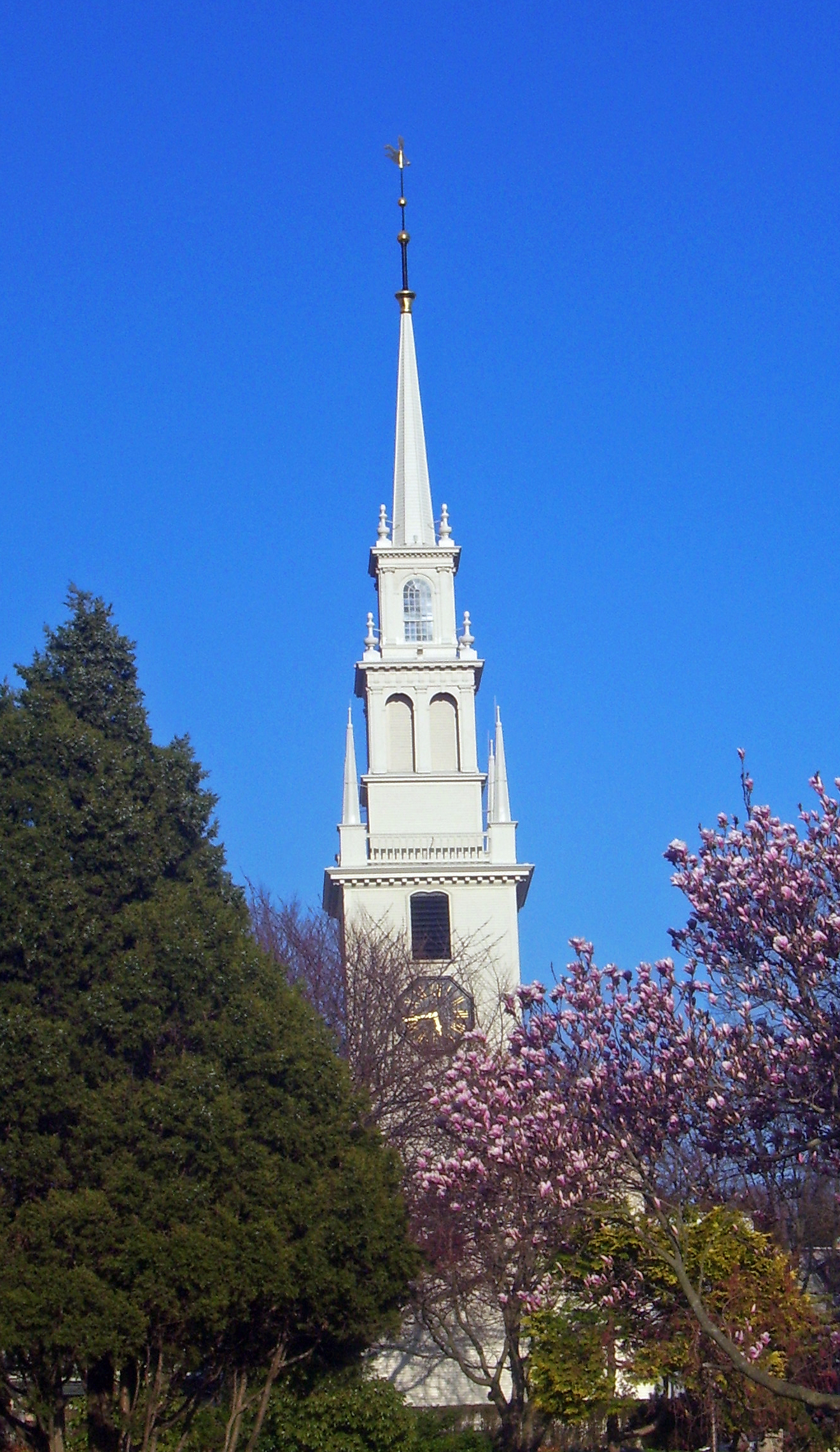 Museum of Newport History, formerly the Brick Market, in Newport, RI, USA